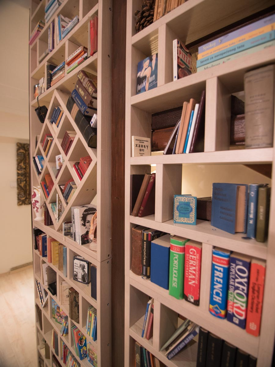 Collection of miniature books "Nataša Ršumović" in The Museum od Serbian Literature in Belgrade, Serbia. Српски (ћирилица): Збирка минијатурних књига „Наташа Ршумовић" у Музеју српске књижевности у Београду.